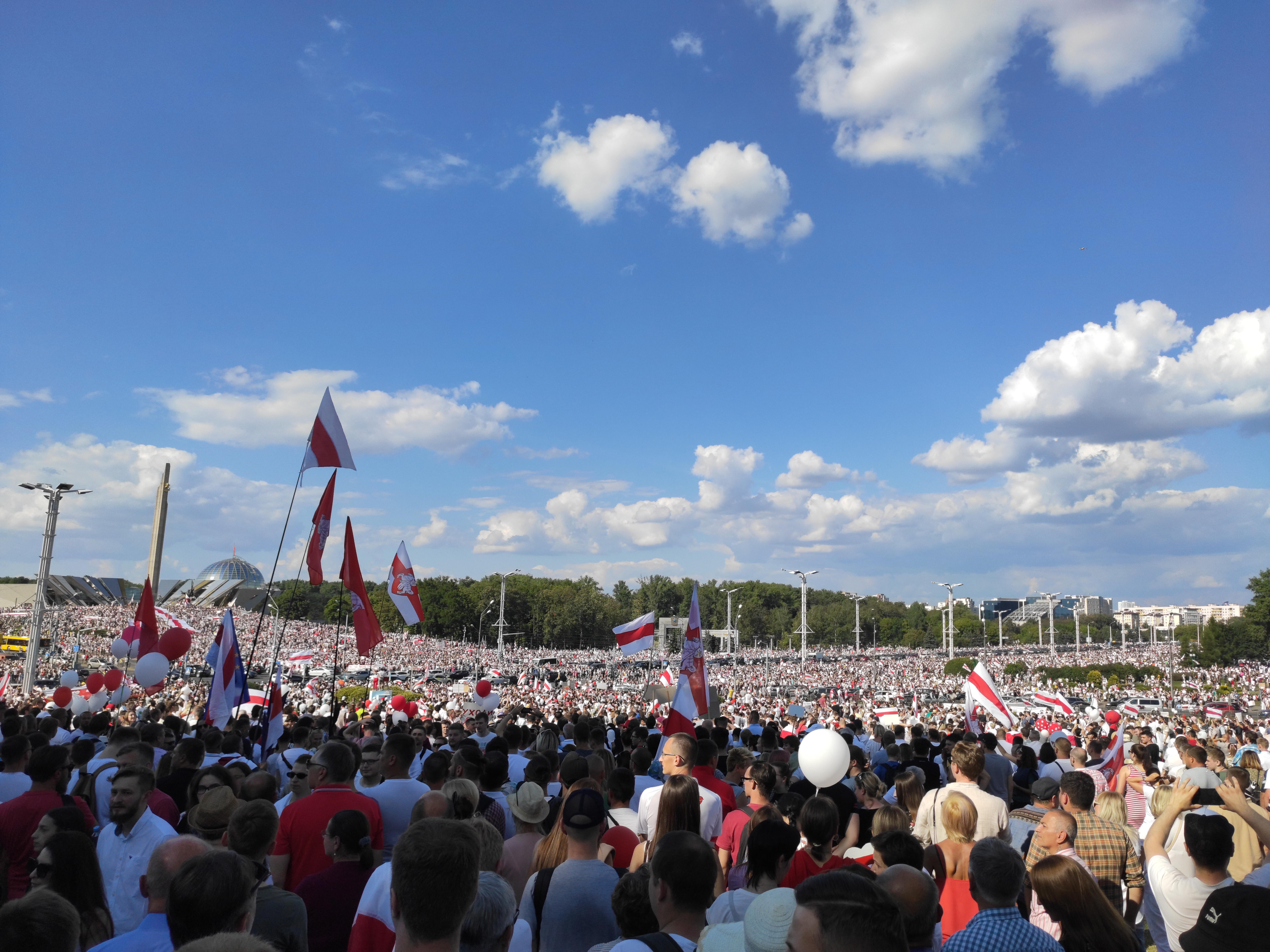 Protest against Alexander Lukashenko in Minsk 2020-08-16